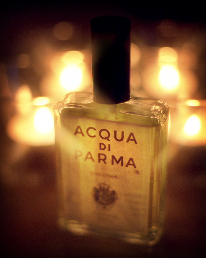 Acqua di Parma. Made in Italy and now a part of LVMH.